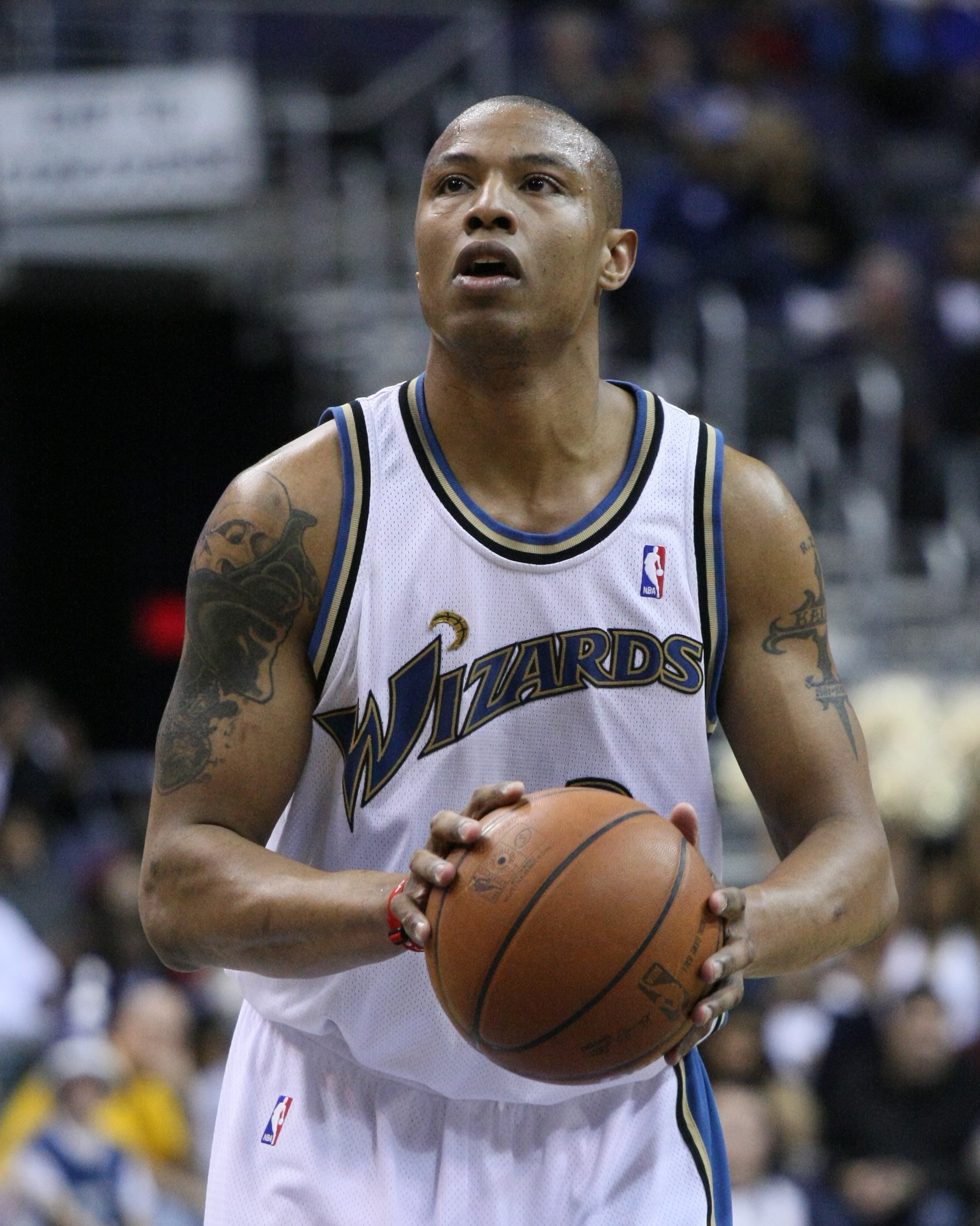 Caron Butler with the Washington Wizards, April 2009.